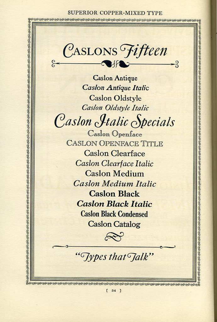 An American type foundry's family of 'Caslon' types in the metal type period. Many, such as the condensed and bold designs, have little connection to William Caslon's own work.